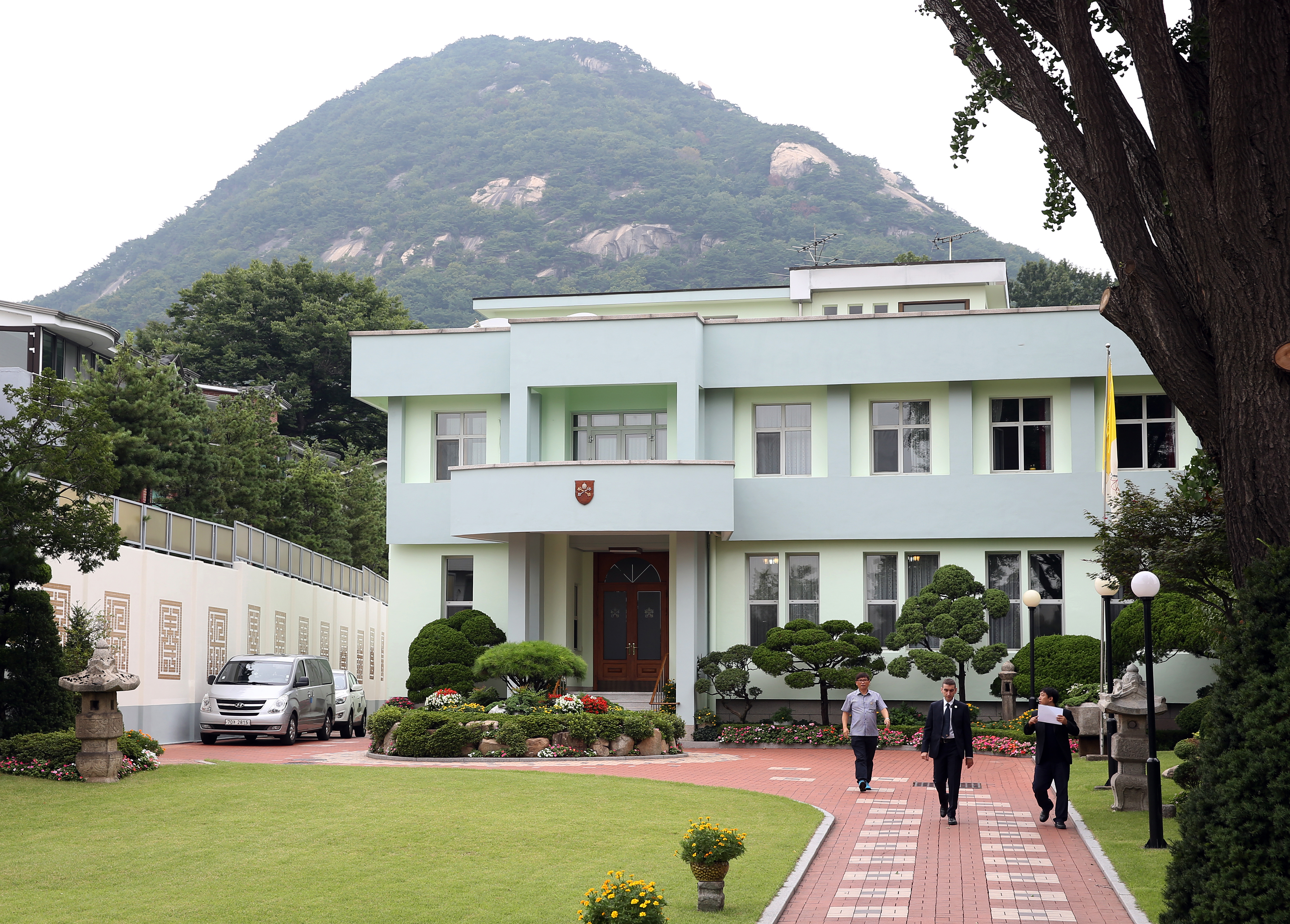 Holy See Embassy, Seoul